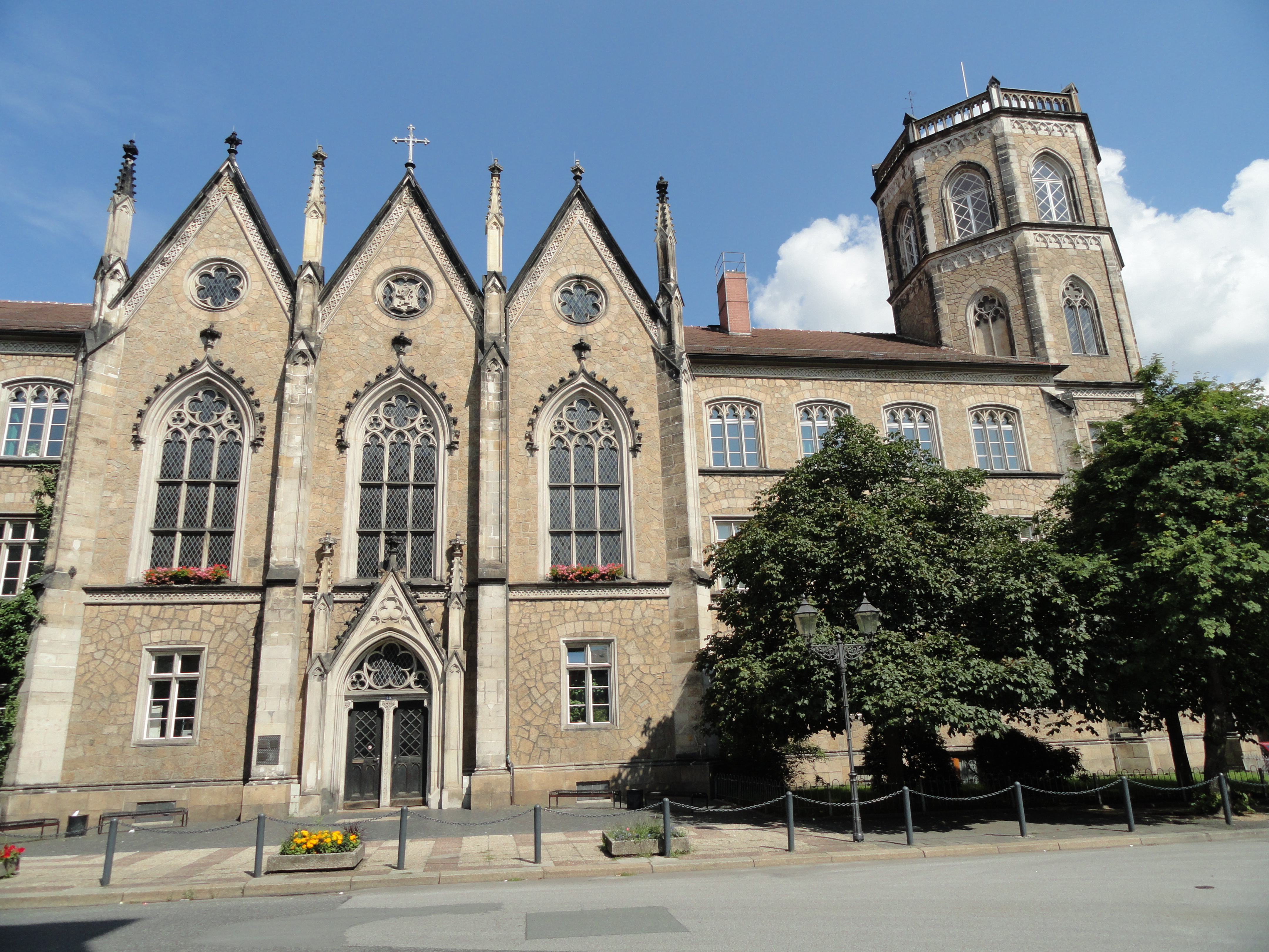 school building Klosterschule in Görlitz, Saxony